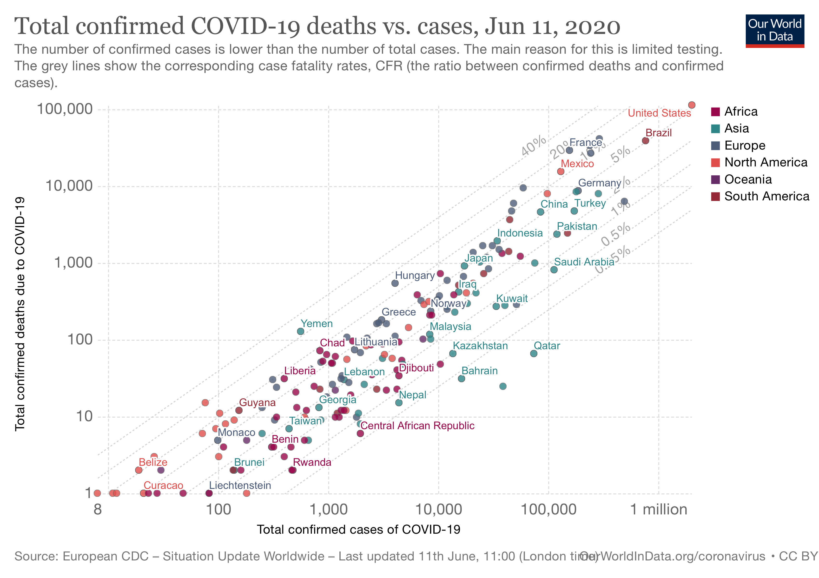 plot of confirmed cases vs fatalities for COVID-19 by country showing case fatality rate